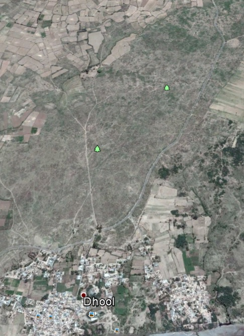 دھول کلاں کا جنگل کٹائی کے بعد 2013 میں